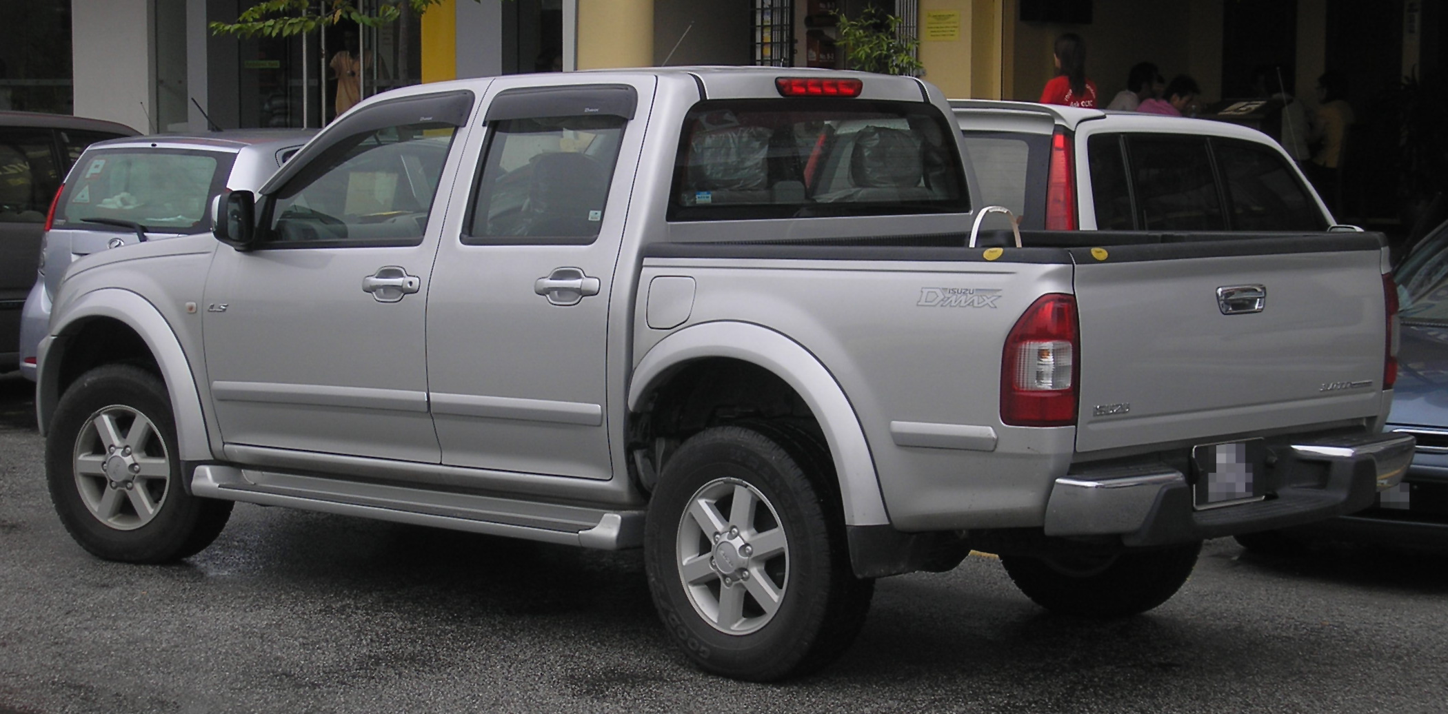 Rear-side shot of a Isuzu D-Max (first generation), in Serdang, Selangor, Malaysia.